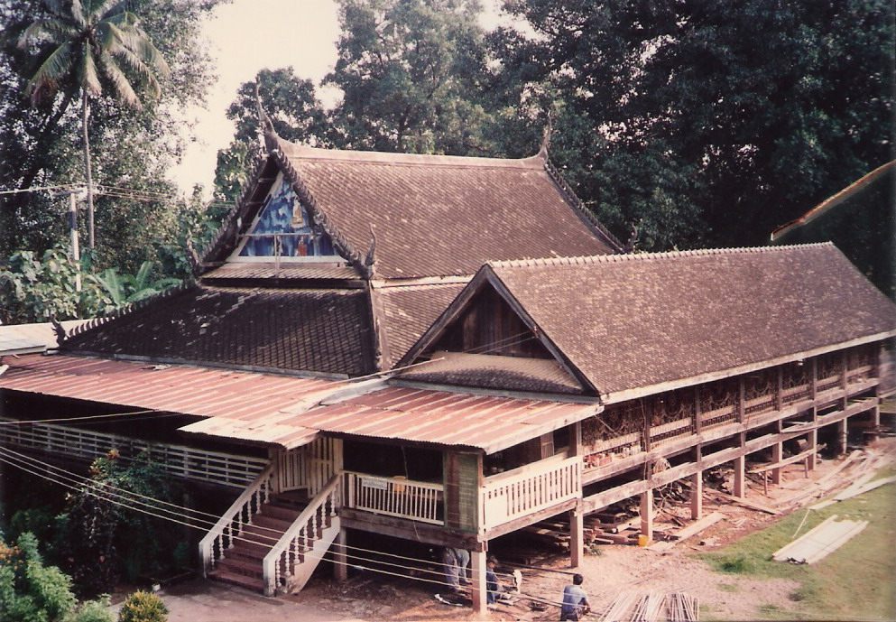 ศาลาการเปรียญวัดคุ้งตะเภา หลังเก่า สร้างในปี พ.ศ. 2472 hall for sermons in a monastery the of the temple at stand old now 70 more year Thailand, Uttaradit, 1998. Own work